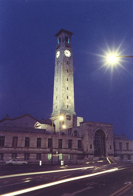 Southampton Civic Centre. Southampton Civic Centre, photographed in 1980. I was informed the light at the top of the tower changes colour to reflect the Council elected to power at the time. In this photo its clearly blue.